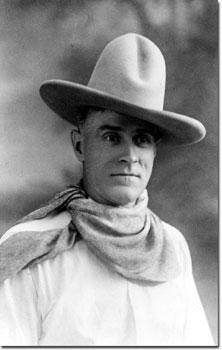 Portrait of Frank Hopkins (1865-1951)